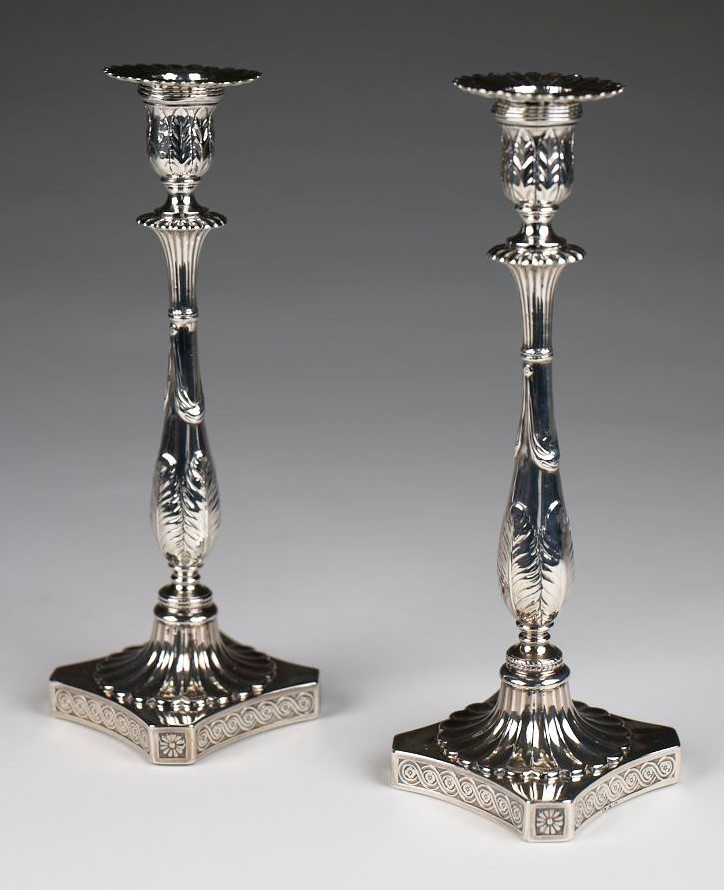 A pair of silver candlesticks made by Matthew Boulton and John Fothergill in Birmingham, England in the late 18th century.